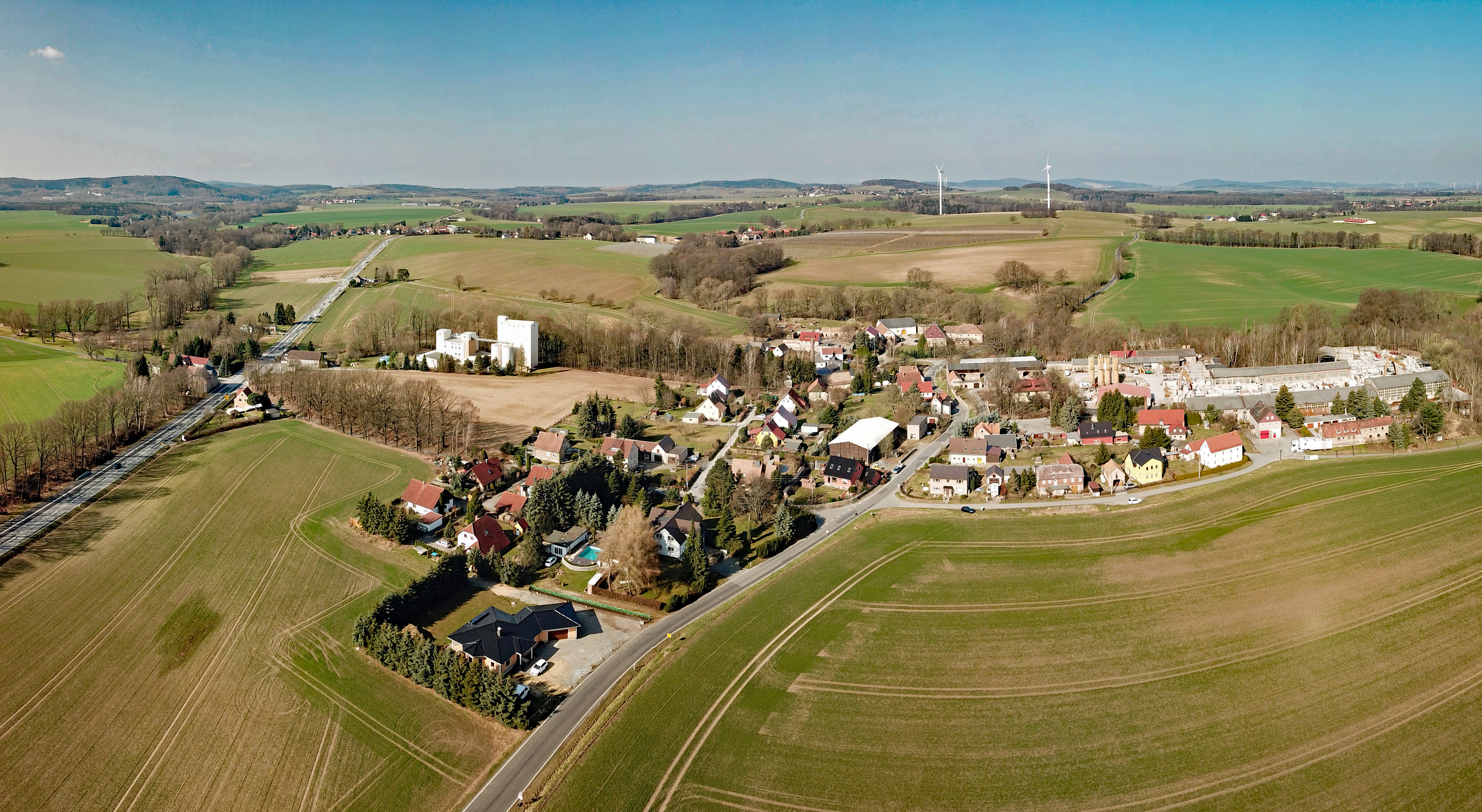 Spittwitz (Göda, Saxony, Germany) Hornjoserbsce: Powětrowy wobraz Spytec